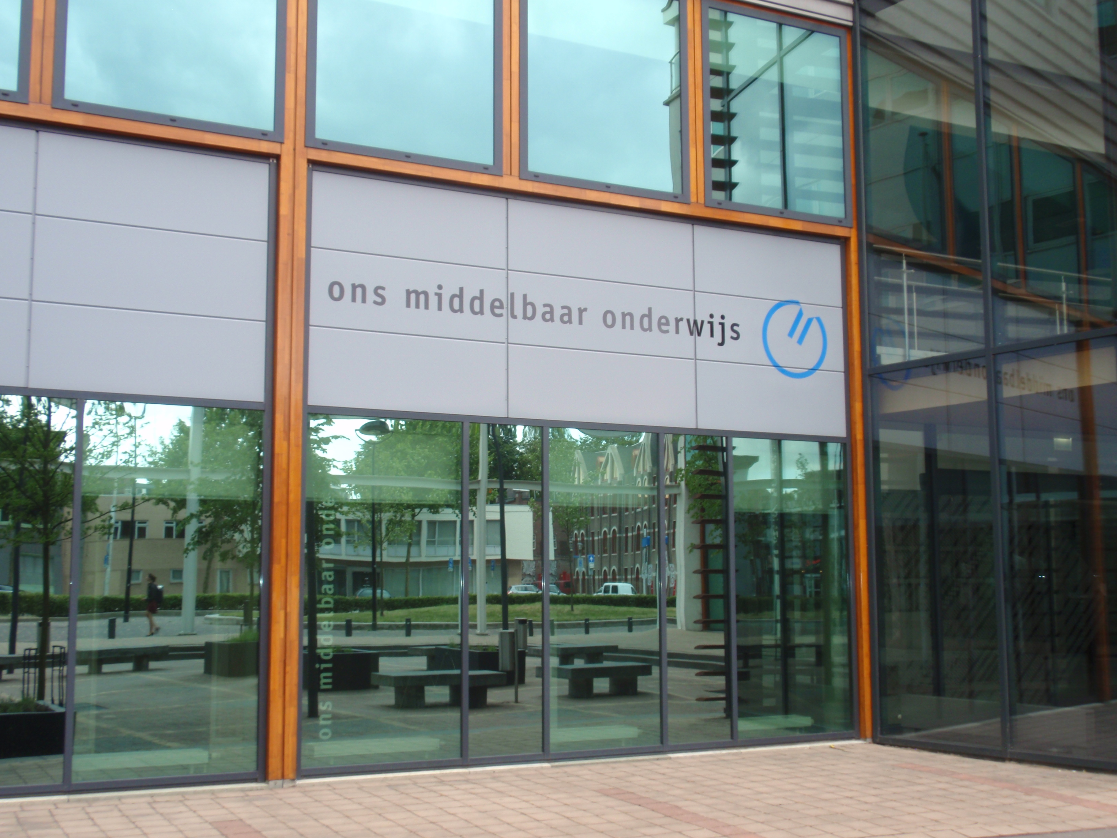 OMO (middleschool organisation) Tilburg